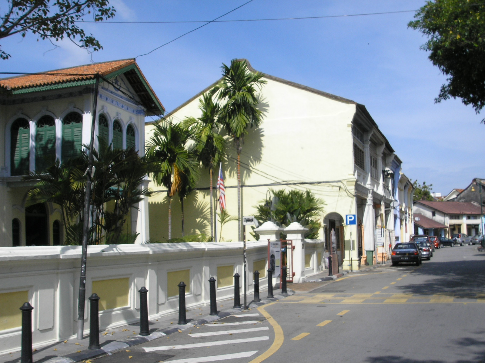 Image of the Lebuh Armenian (Armenian Street) in George Town, Penang.